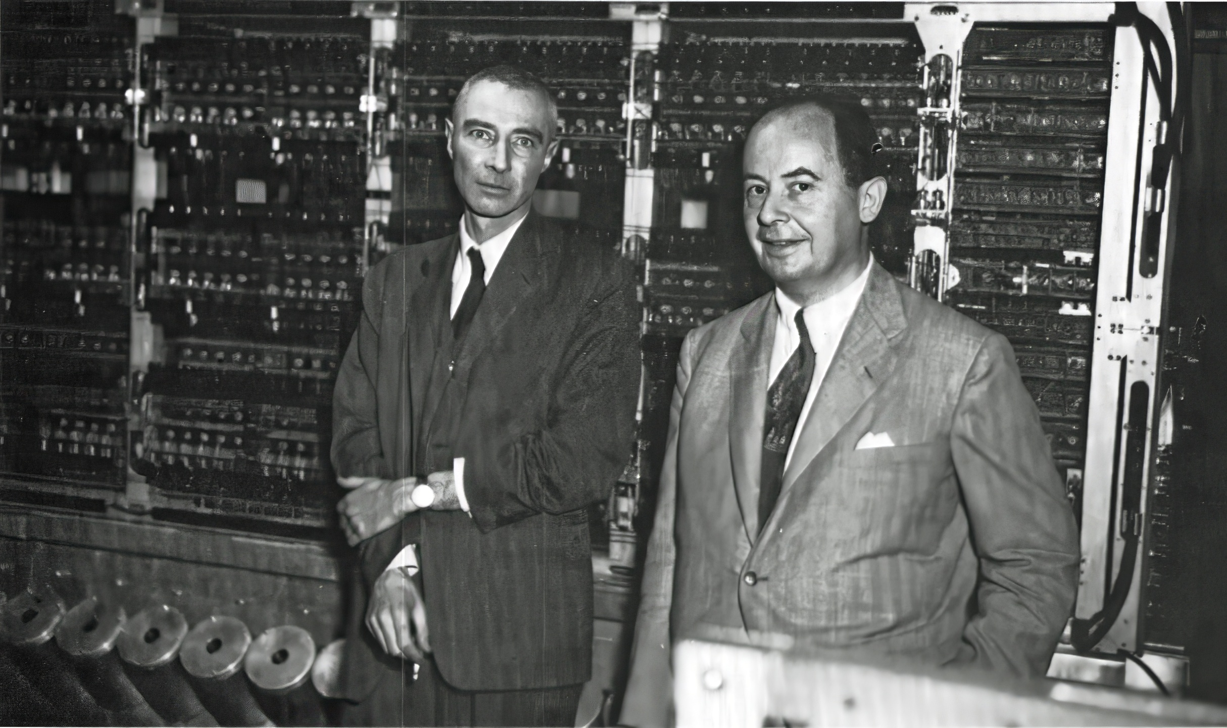 J. Robert Oppenheimer (left) and John von Neumann at the October 1952 dedication of the computer built for the Institute for Advanced Study. Oppenheimer, who was head of the Los Alamos Laboratory during the war, became the institute's director in 1947.